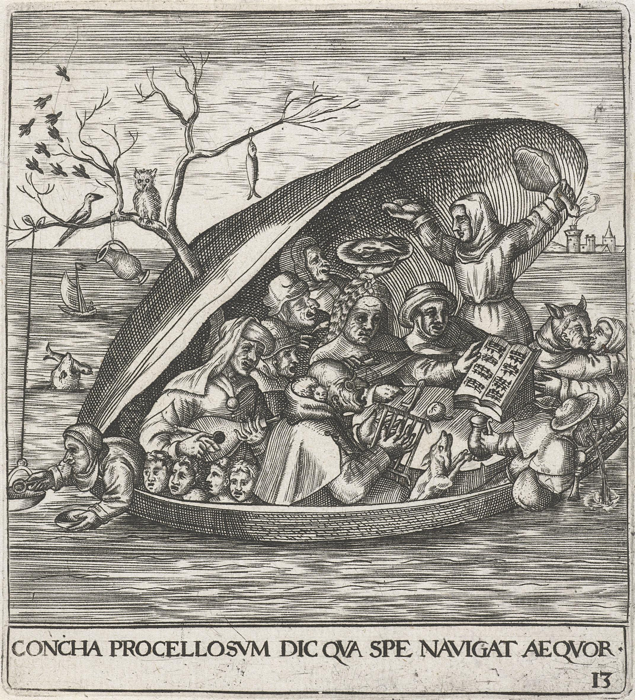 Part of the series Emblemata Saecularua, 1596.